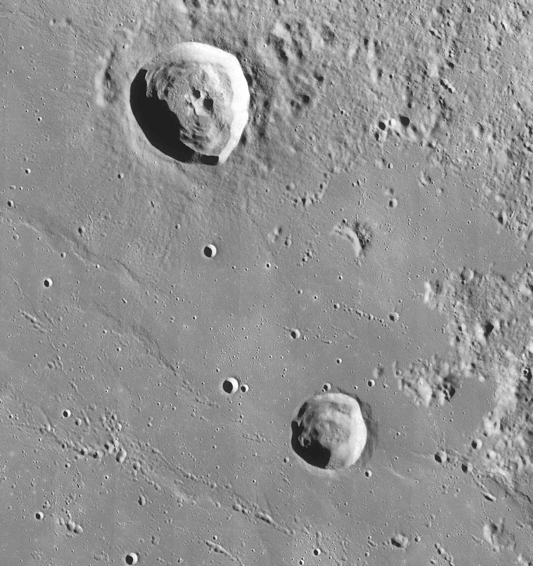 Craters Archytas (upper left) and Protagoras (detail of LRO - WAC global moon mosaic; Mercator projection)